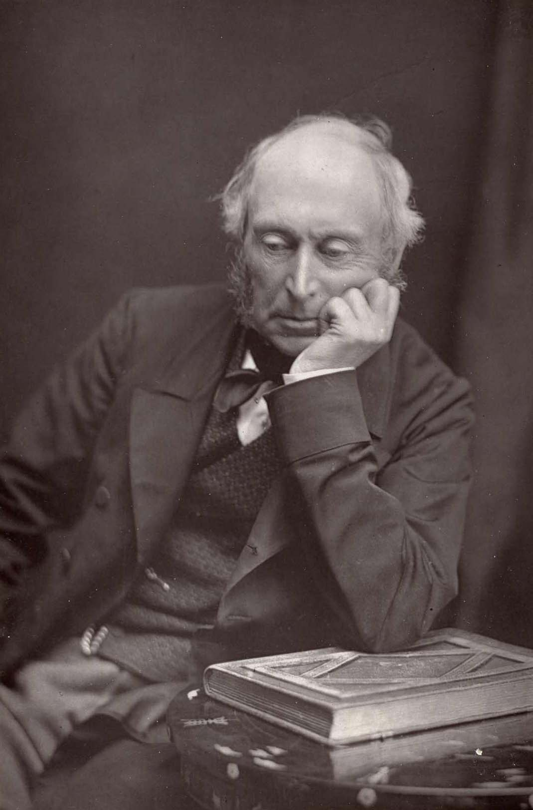 William Armstrong, 1st Baron Armstrong. 1810-1900.